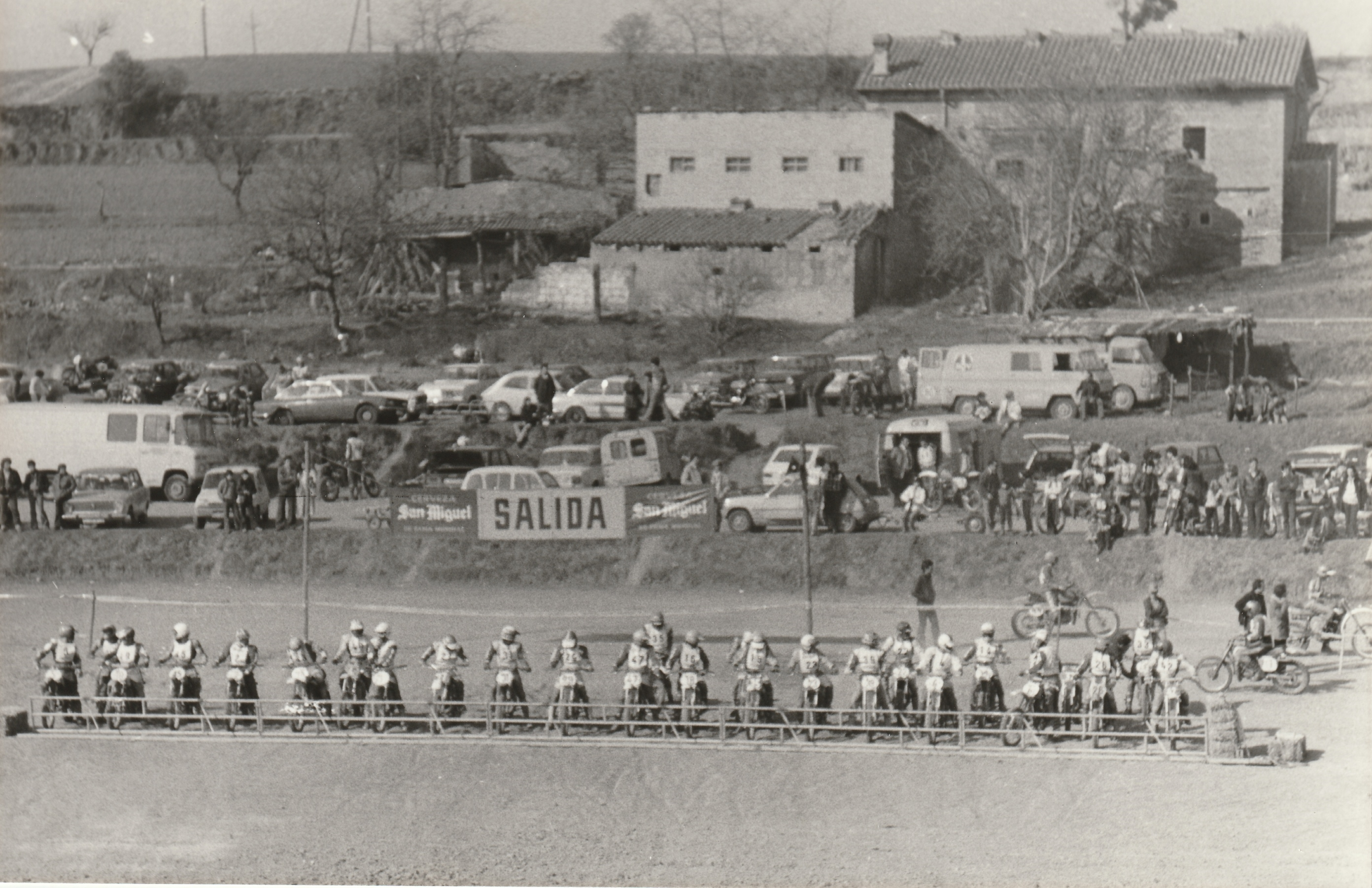 Start of V Motocross Vila de Mollet (1979/2/25)